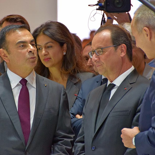 Francois Hollande meets Renault CEO Carlos Ghosn, 2014 Paris Motor Show.